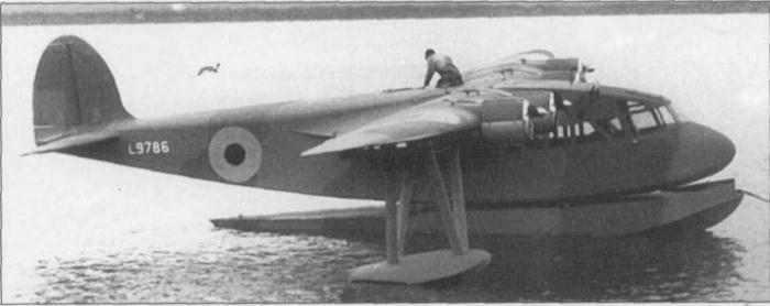 The Short Scion Senior FB, L9786, under test by the Air Ministry.